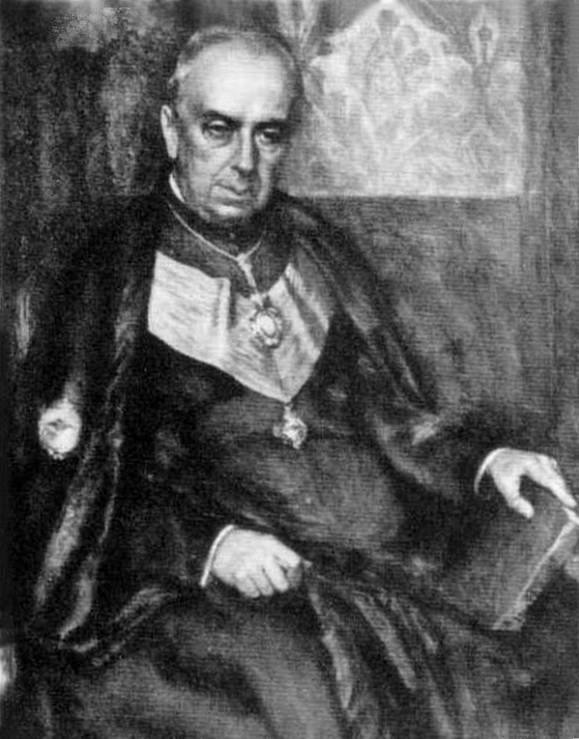 Fidel Fita Colomer (Arenys de Mar, 1835 - Madrid, 1918), distinguished catalan archaeologist & historian (JHS)